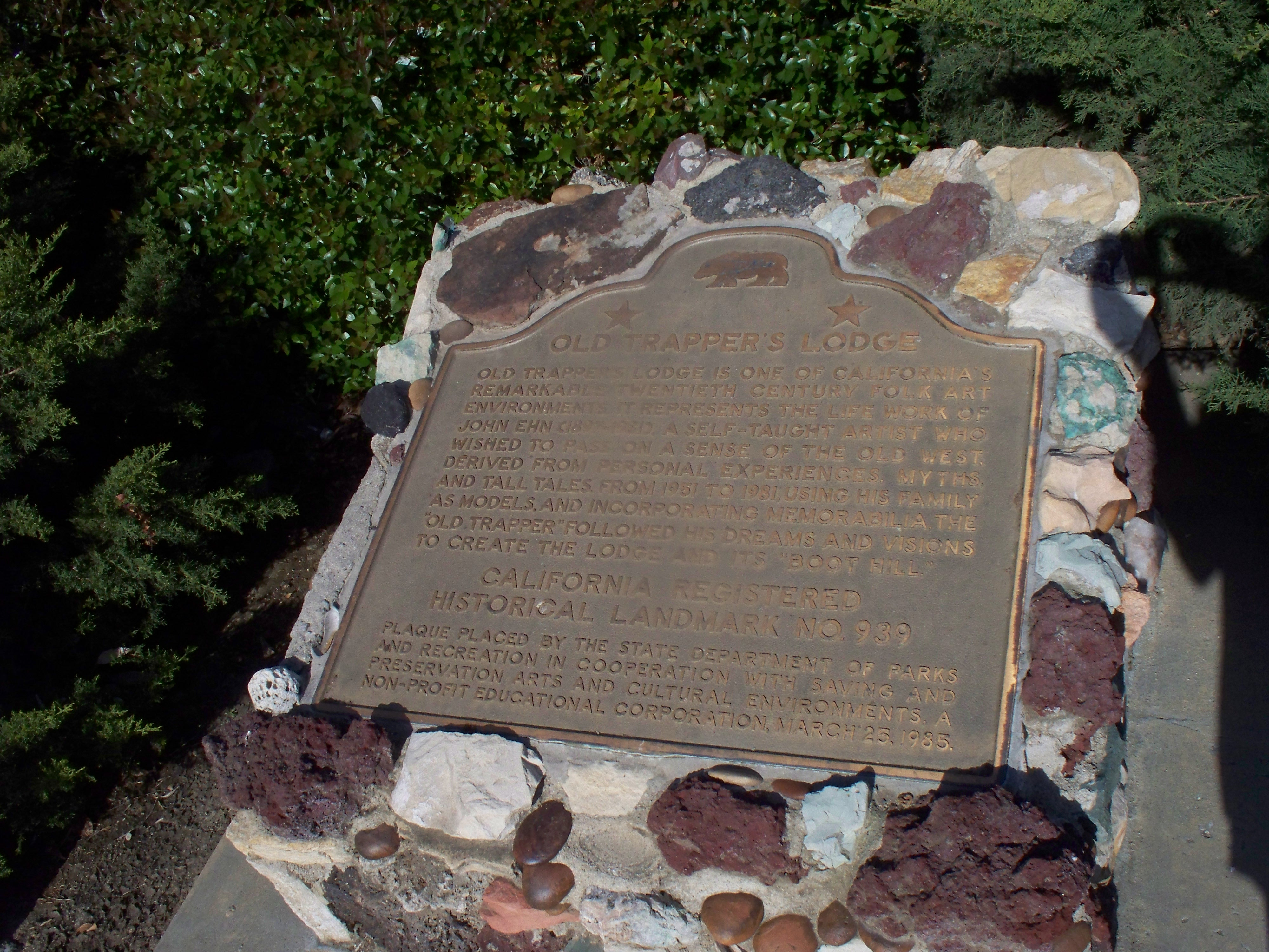 Old Trapper's Lodge Text on the plaque is: Old Trapper's Lodge is one of California's remarkable twentieth century folk art environments. It represents the life work of John Ehn (1897 - 1981). A self-taught artist who wished to pass on a sense of the old west, derived from personal experiences, myths, and tall tales. From 1951 to 1981, using his family as models, and incorporating memorabilia, the "Old Trapper" followed his dreams and visions to create the lodge and its "Boot Hill". California Registered Historical Landmark No. 939. PLAQUE PLACED BY THE STATE DEPARTMENT OF PARKS AND RECREATION IN COOPERATION WITH SAVING AND PRESERVATION ARTS AND CULTURAL ENVIRONMENTS, A NON-PROFIT EDUCATIONAL CORPORATION. MARCH 25, 1985